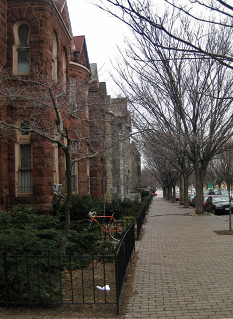 Terraced houses/Row houses in Bolton Hill